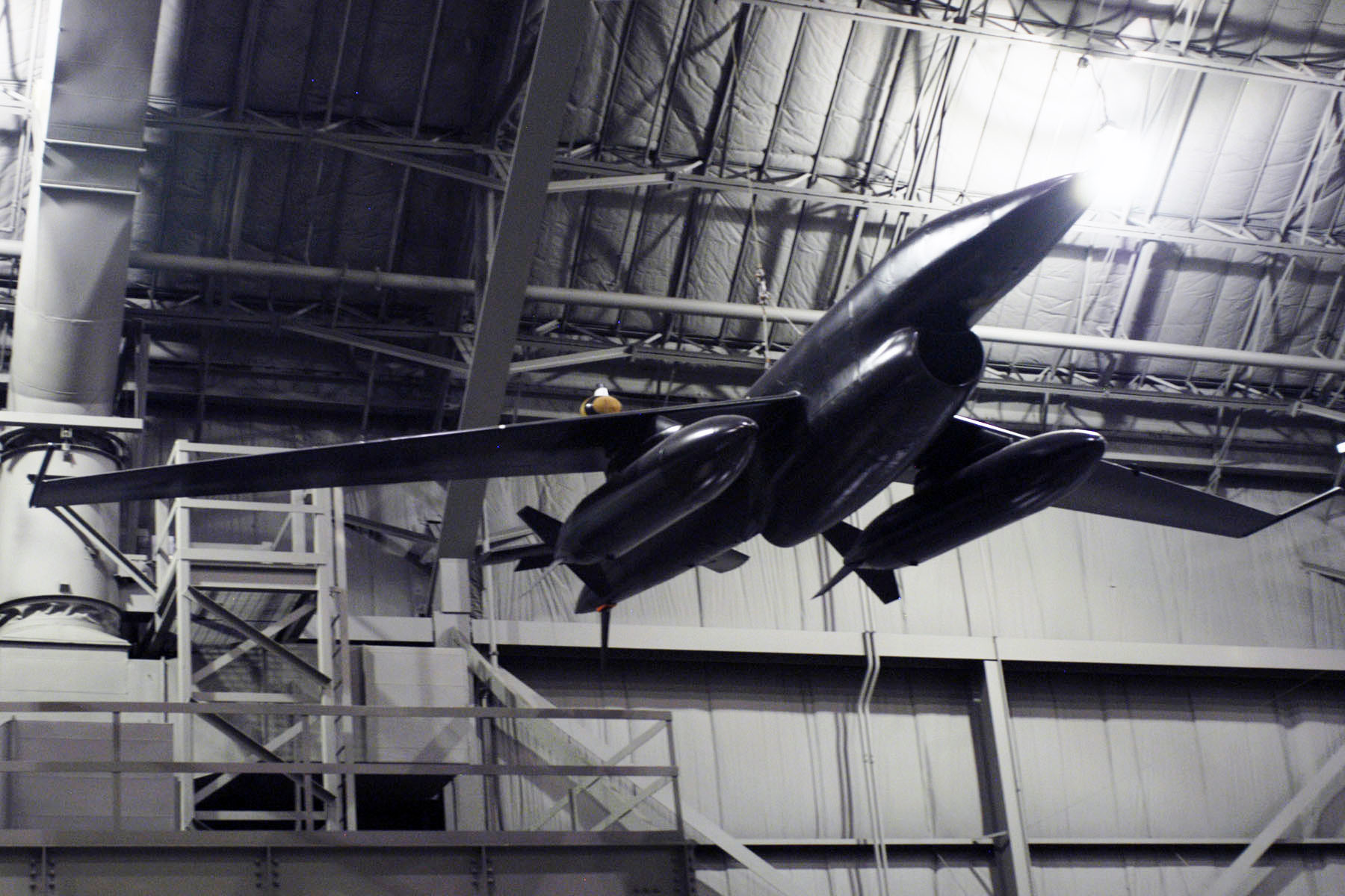 Teledyne-Ryan AQM-34Q Combat Dawn Firebee.